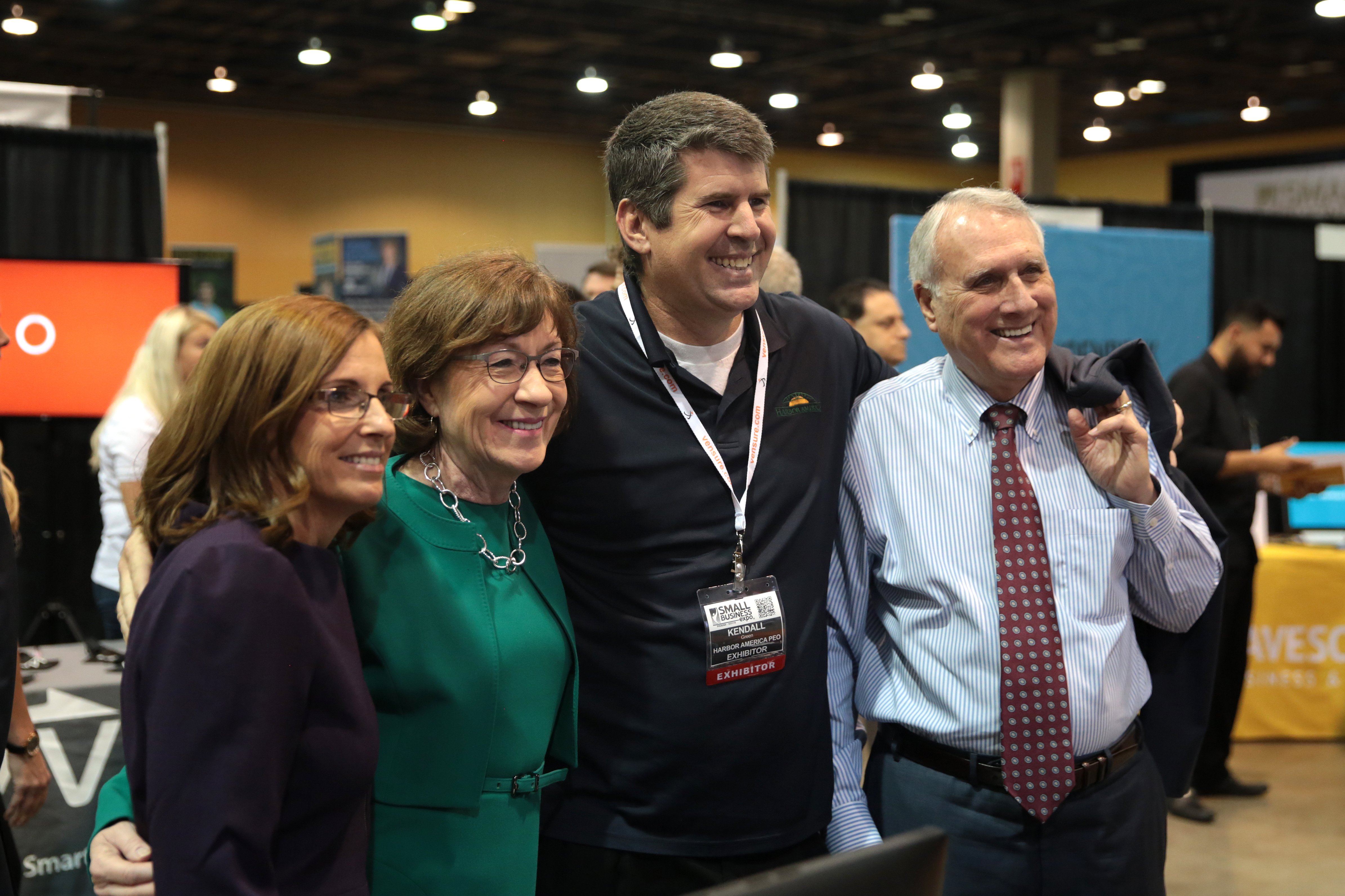 U.S. Congresswoman Martha McSally and U.S. Senators Susan Collins and Jon Kyl with an attendee at the 2018 Small Business Expo at the Phoenix Convention Center in Phoenix, Arizona.